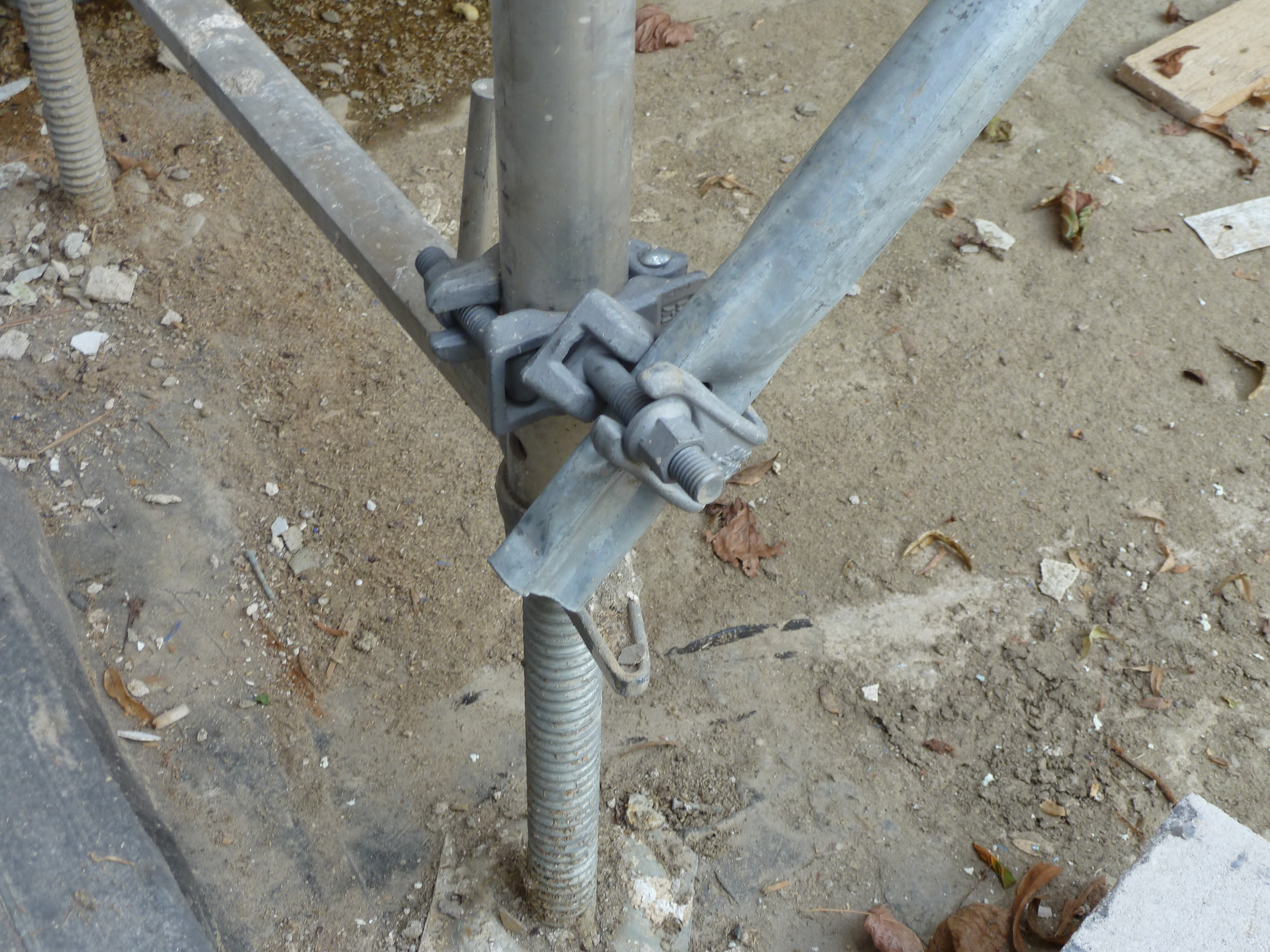 Scaffolding: coupler